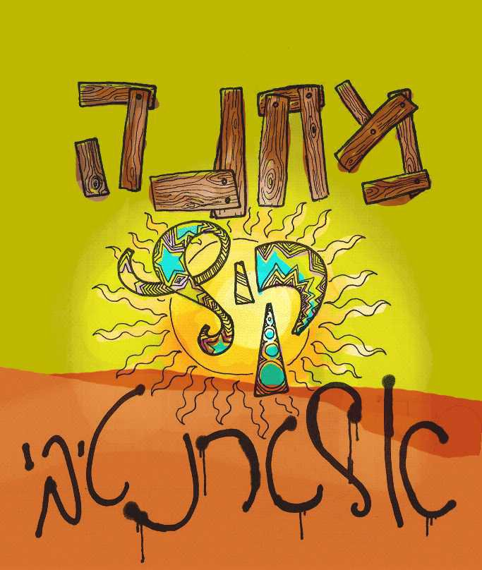 the logo of alternative summer camp